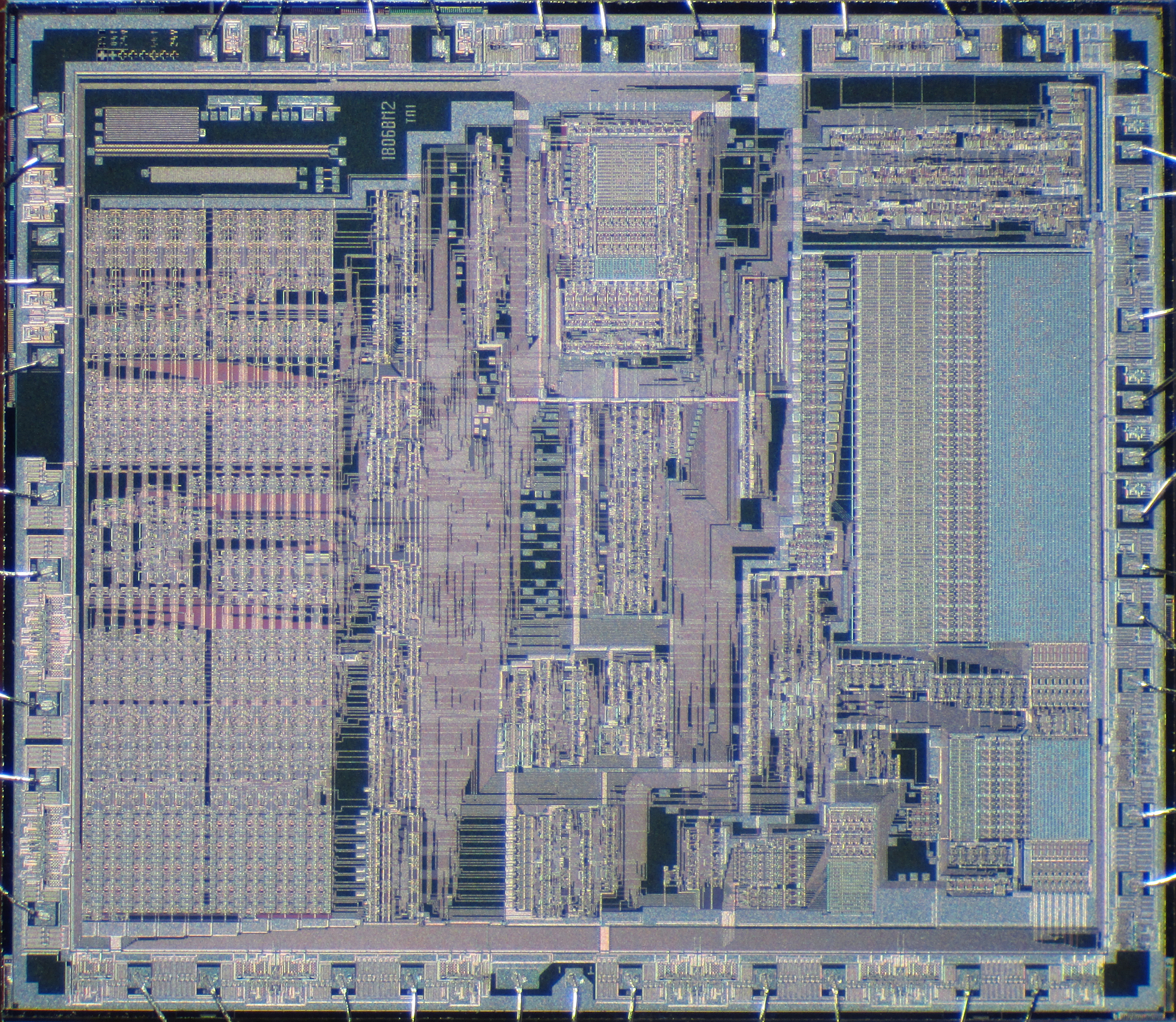 Die shot of Soviet N1806VM2 microprocessor.